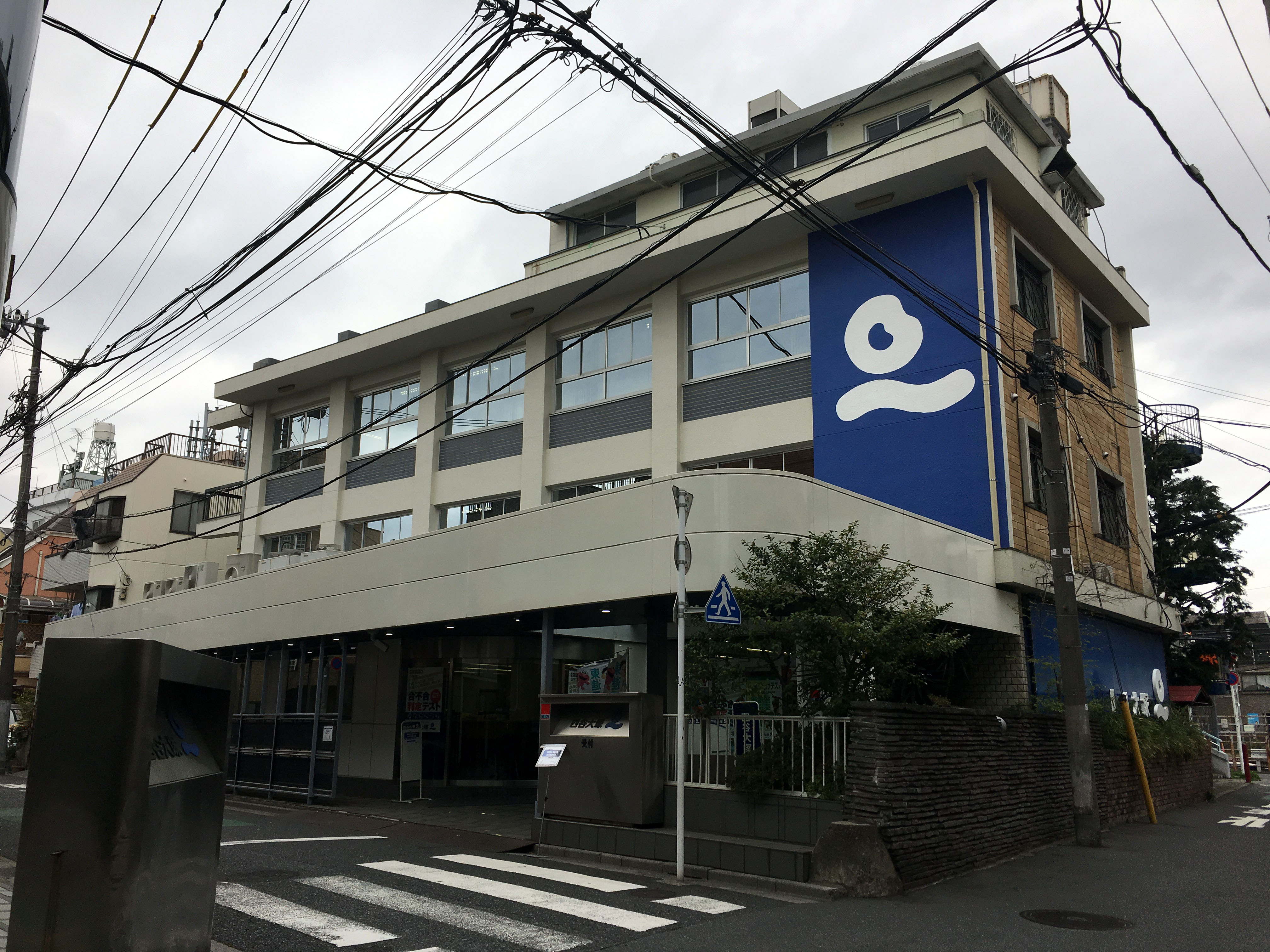 Yotsuya-Otsuka (Japanese cram school) headquarters (Tokyo, Japan)